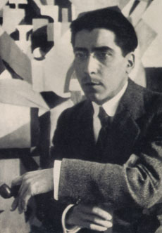 Rafael Barradas